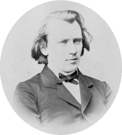 Johannes Brahms, german composer, pianist and conductor